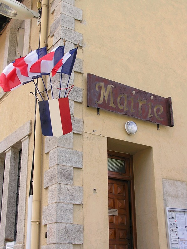 Pediment of Casteil City Hall